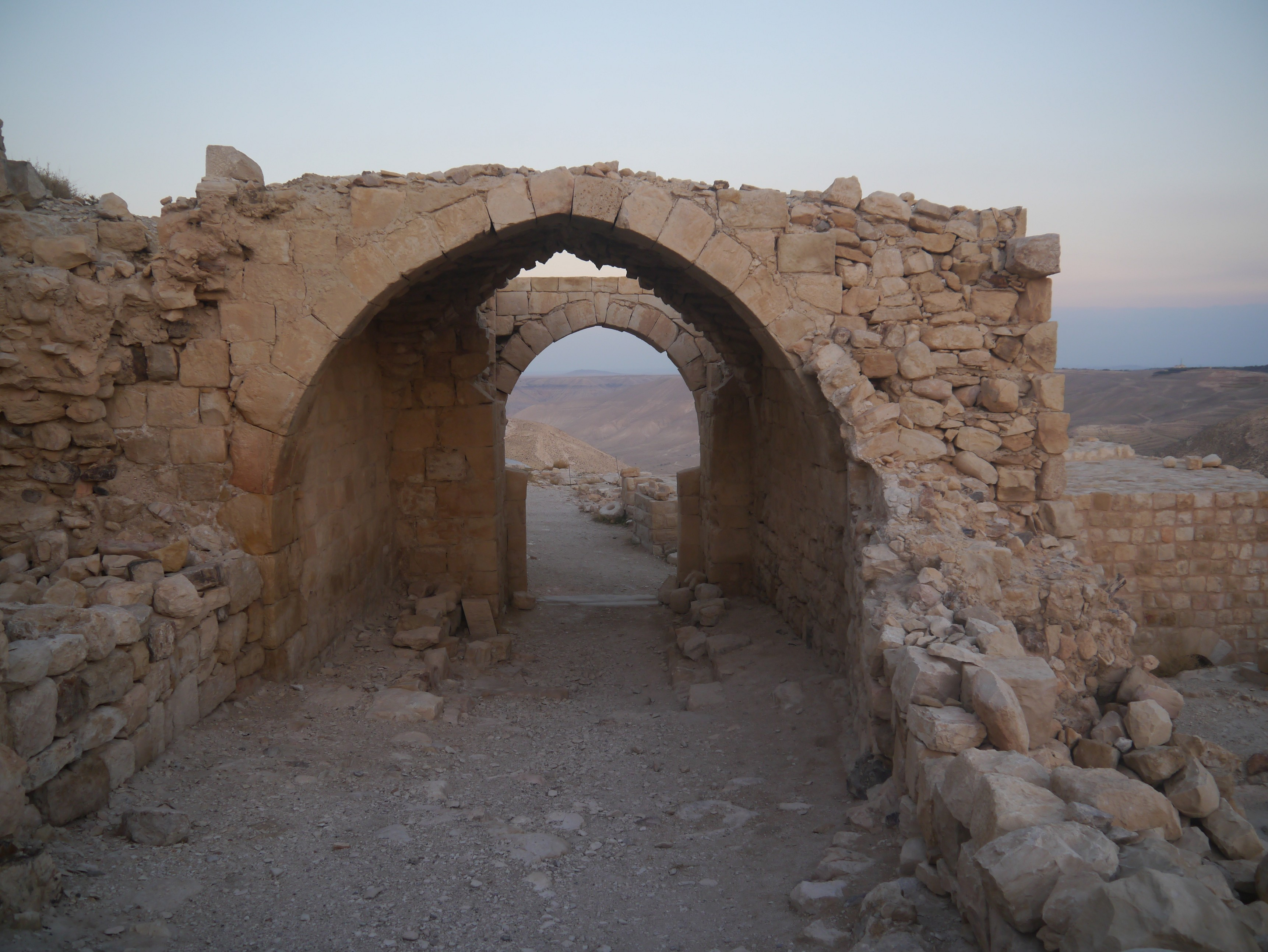 Montréal Crusader fortress , Shawbak, Southern Jordan